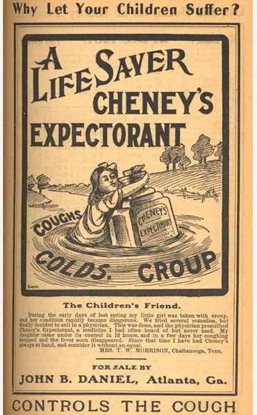 advertising dating back to 1906